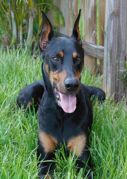 Traditional "Black and Tan/ Rust" Doberman